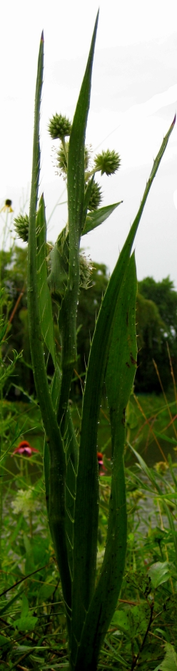 Eryngium Yuccifolium, Schaumburg IL, 2008.